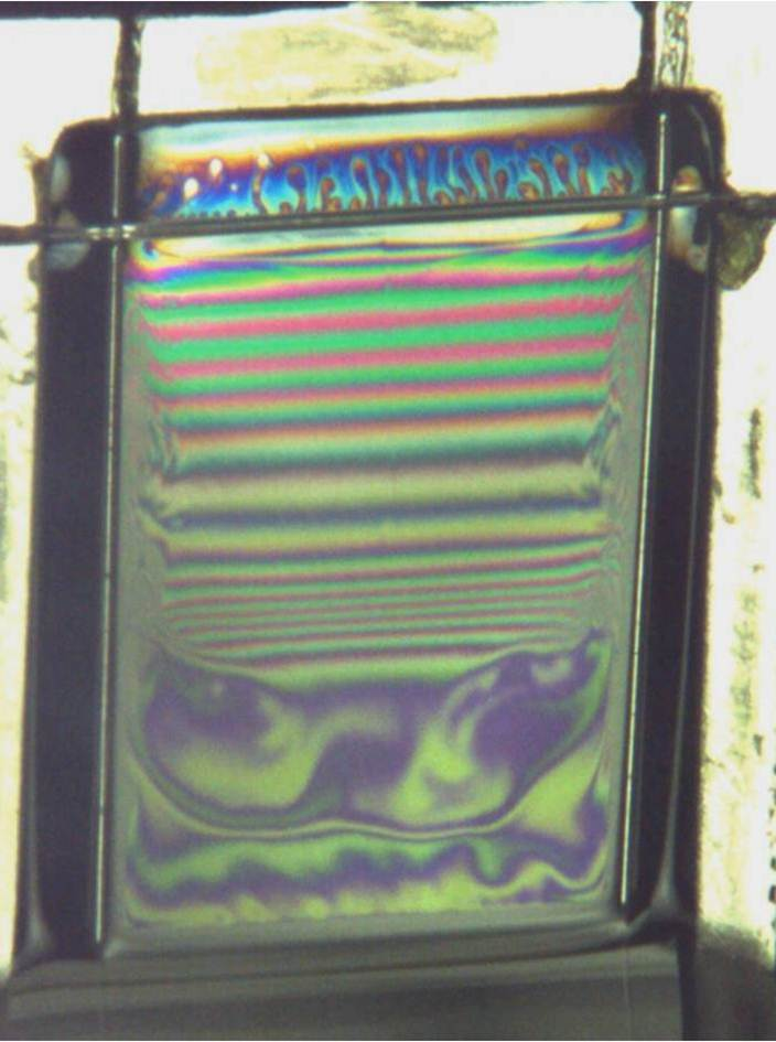 Photograph of a soap film during its generation by pulling a wire frame out of a soapy solution